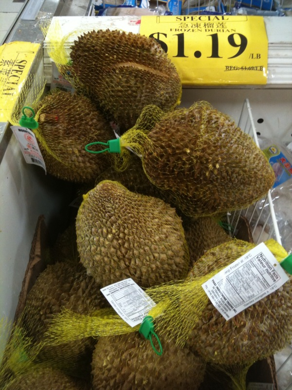 Frozen durian fruit in a grocery store in CanadaUnknown